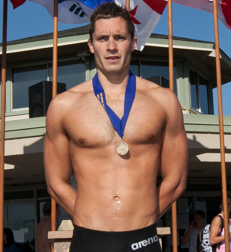 Eric Shanteau at the 2011 Santa Clara Invitational. He's a member of the US team at the 2012 London Olympics. Contact JD Lasica for re-publication rights at .